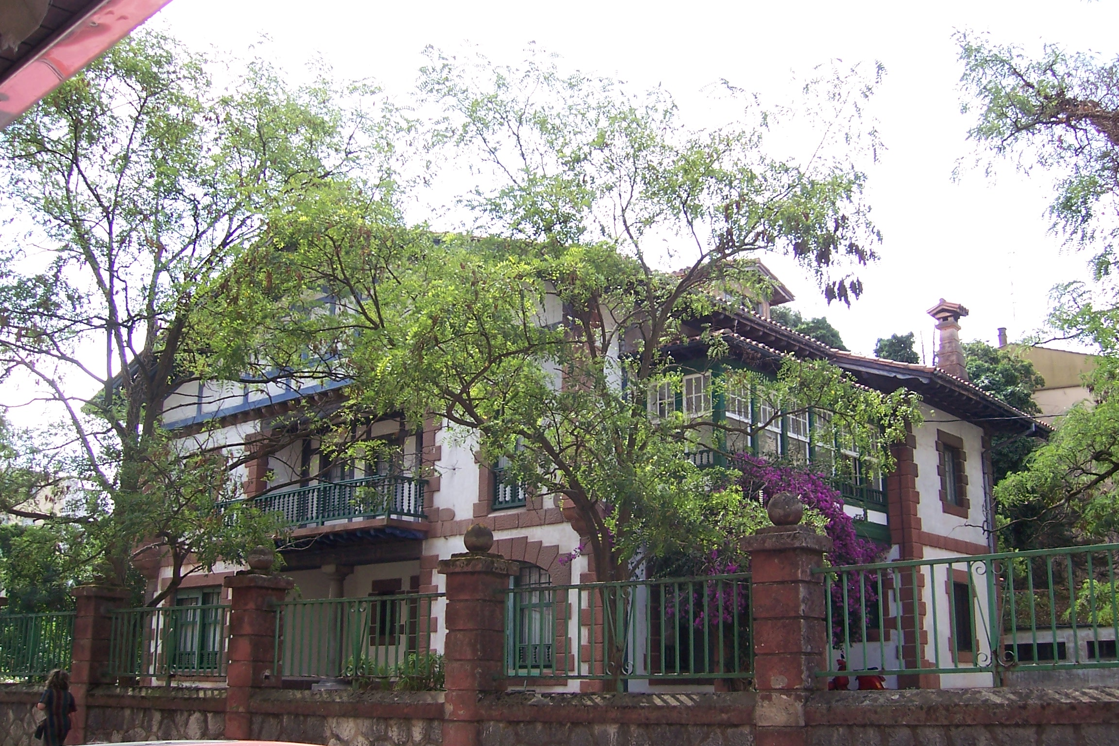 Family Albo's mansion built in 1932 located on Alfonso XII street, Santoña (Cantabria).